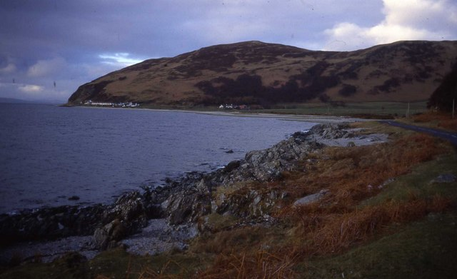 Shoreline at Catacol Bay Looking northwards across the bay to Catacol hamlet which is dwarfed by Cnoc Leacainn Duibne.